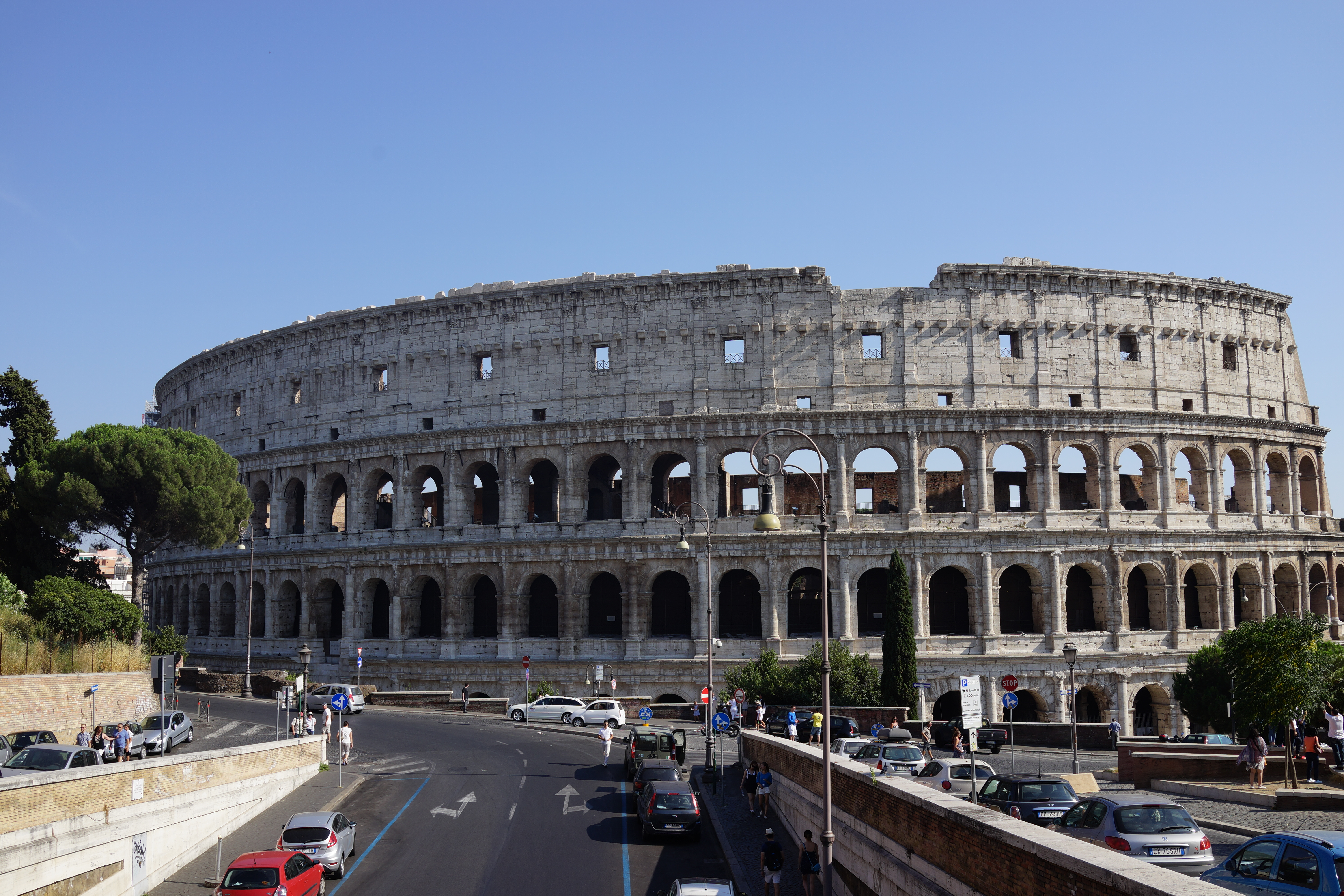 The Colosseum or Coliseum (/kɒləˈsiːəm/ kol-ə-SEE-əm), also known as the Flavian Amphitheatre (Latin: Amphitheatrum Flavium